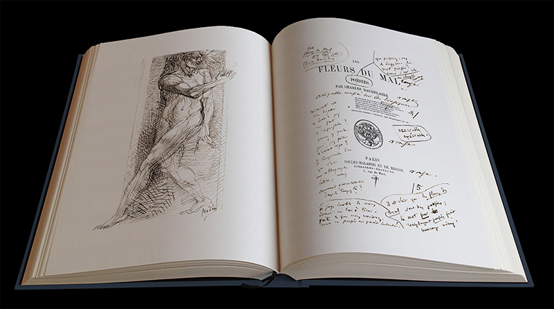 Les Fleurs du Mal, Baudelaire's corrected proofs